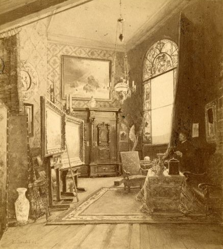 Oskar Hoffmann's studio in Düsseldorf.